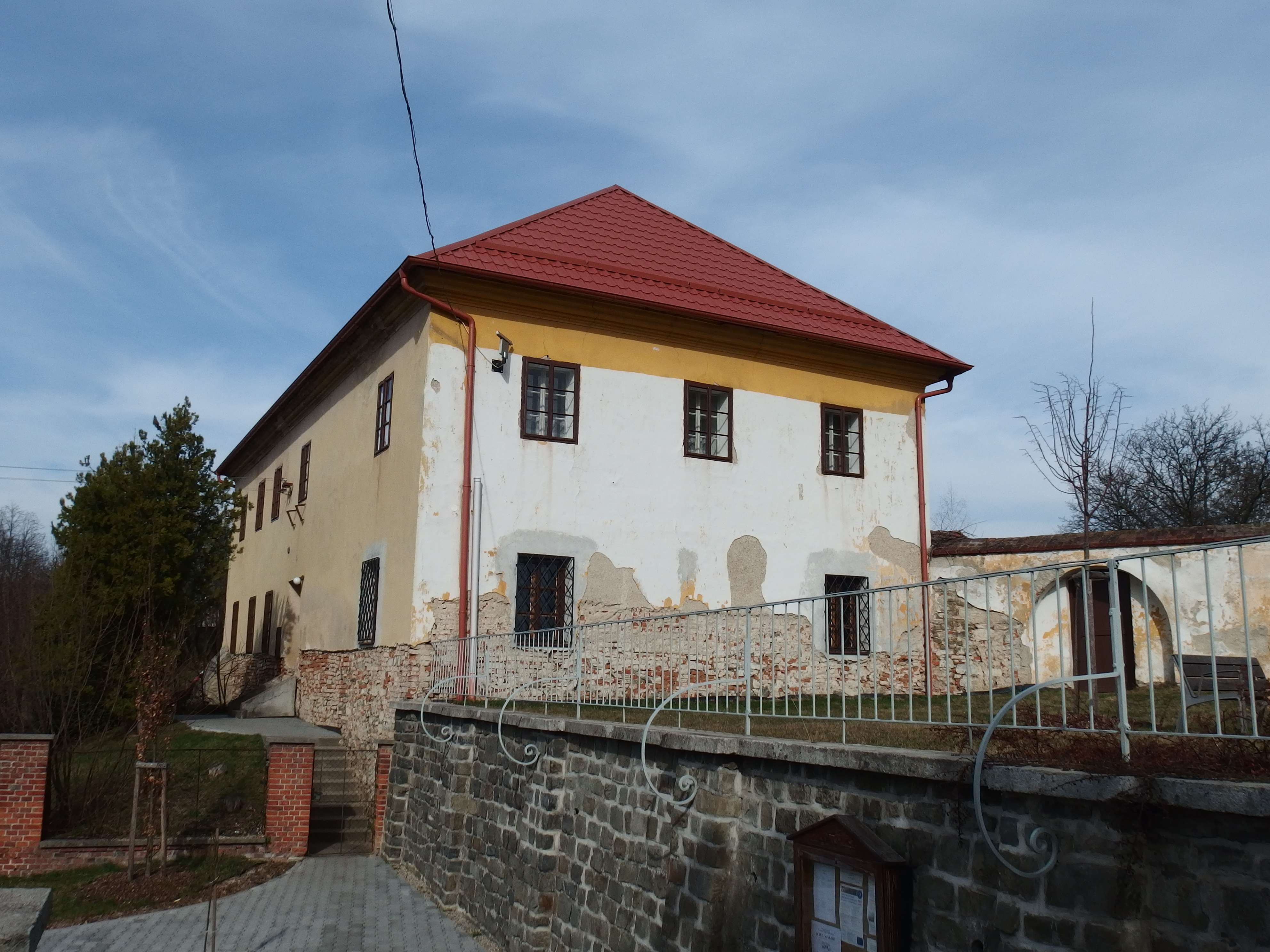 Dobromilice, Prostějov District, Czech Republic.